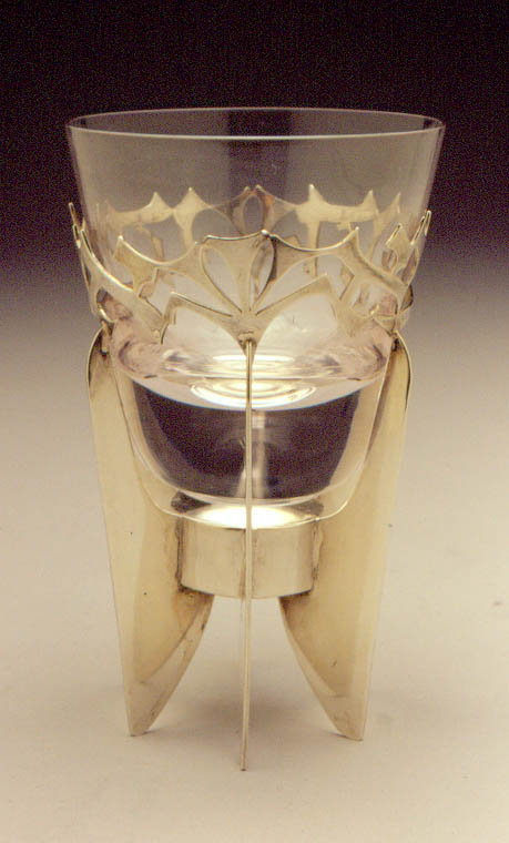 Description: Elijah cup Artist: David, Ismar Date: unknown Medium: sterling silver; glass Persistent URL: Repository: Yeshiva University Museum Accession number: 1997.539 Rights Information: No known copyright restrictions; may be subject to third party rights. For more copyright information, click here. See more information about this image and others at CJH Museum Collections.